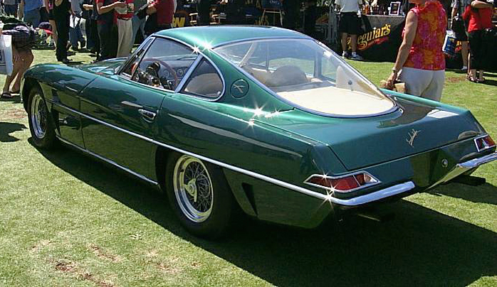 1963 Lamborghini 350 GTV at the Concorso Italiano in 2001.